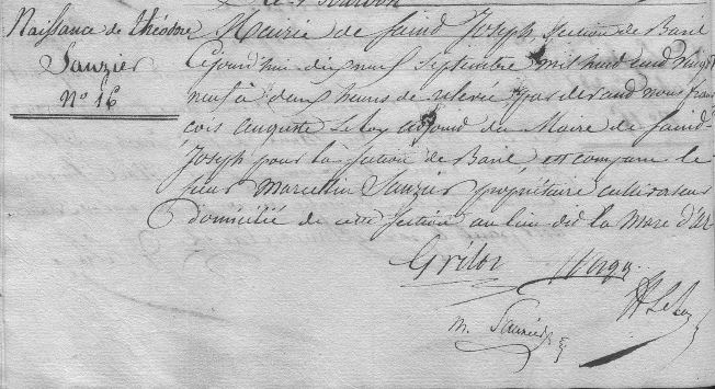 Birth entry of Théodore Sauzier